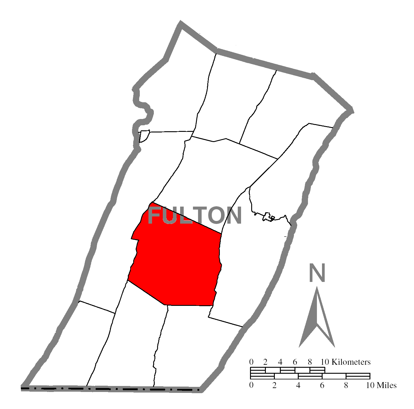 A map of Fulton County showing Belfast Township, Pennsylvania (alternate) highlighted on the map.